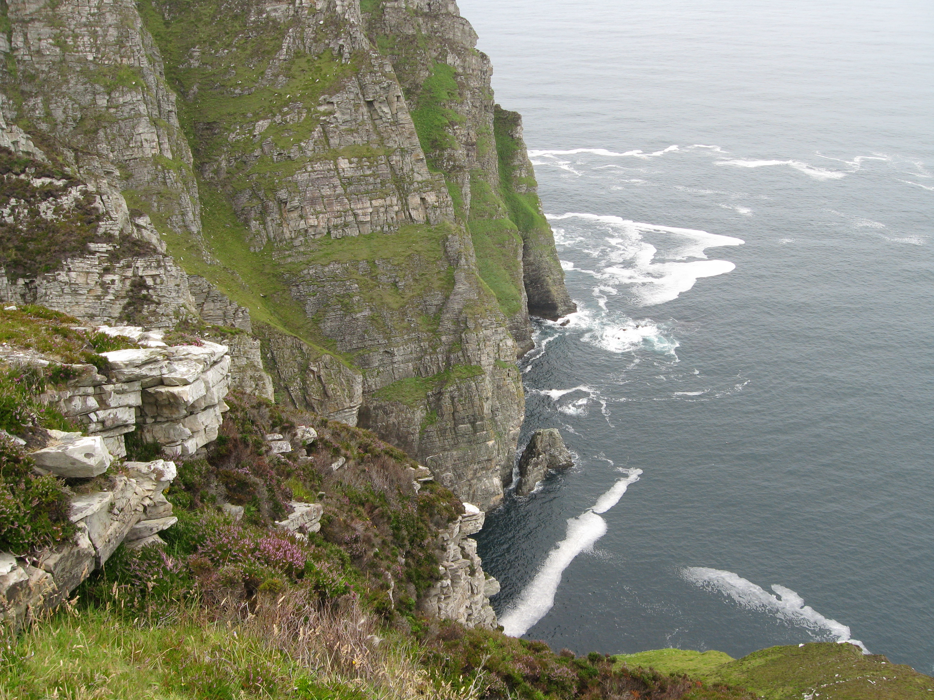 Taken from near the Napoleonic-era lookout.